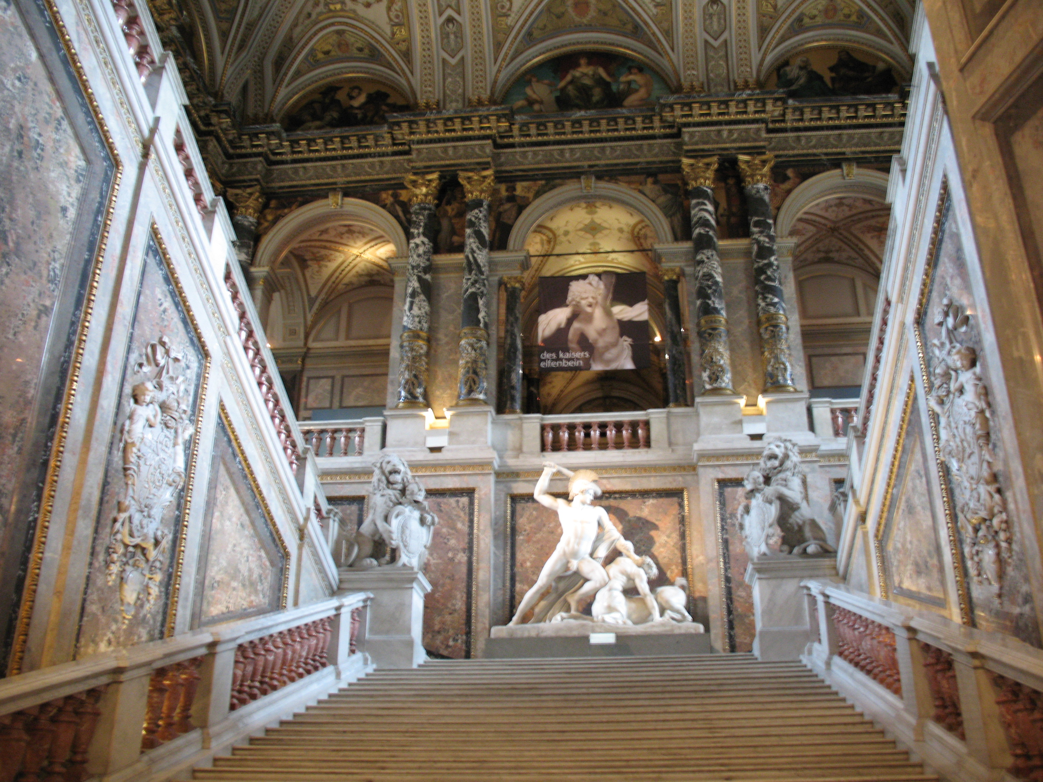 Art History Museum, Vienna, Austria